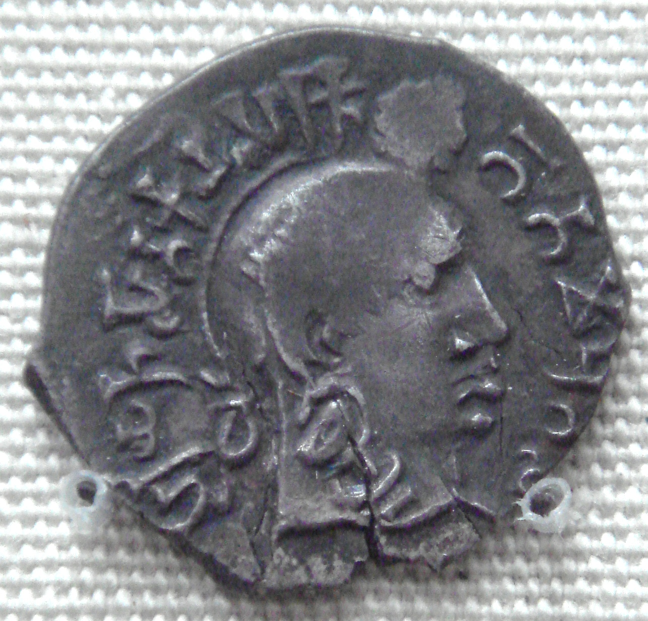 Gautamiputra_Rajni_Shri_Satakarni